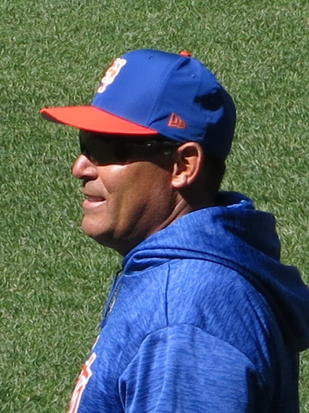 Rubén Amaro Jr. on March 31, 2018.